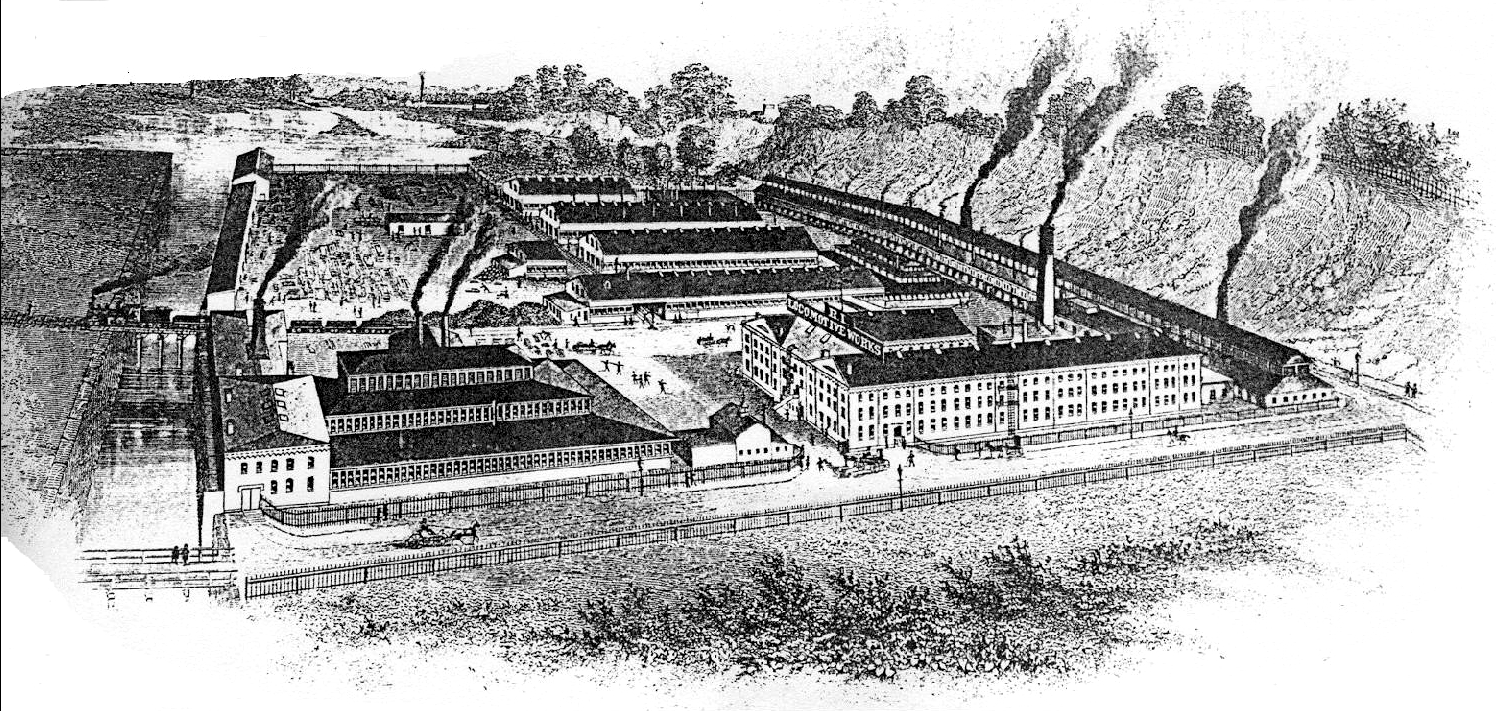 Rhode Island Locomotive Works between 1866 and 1885